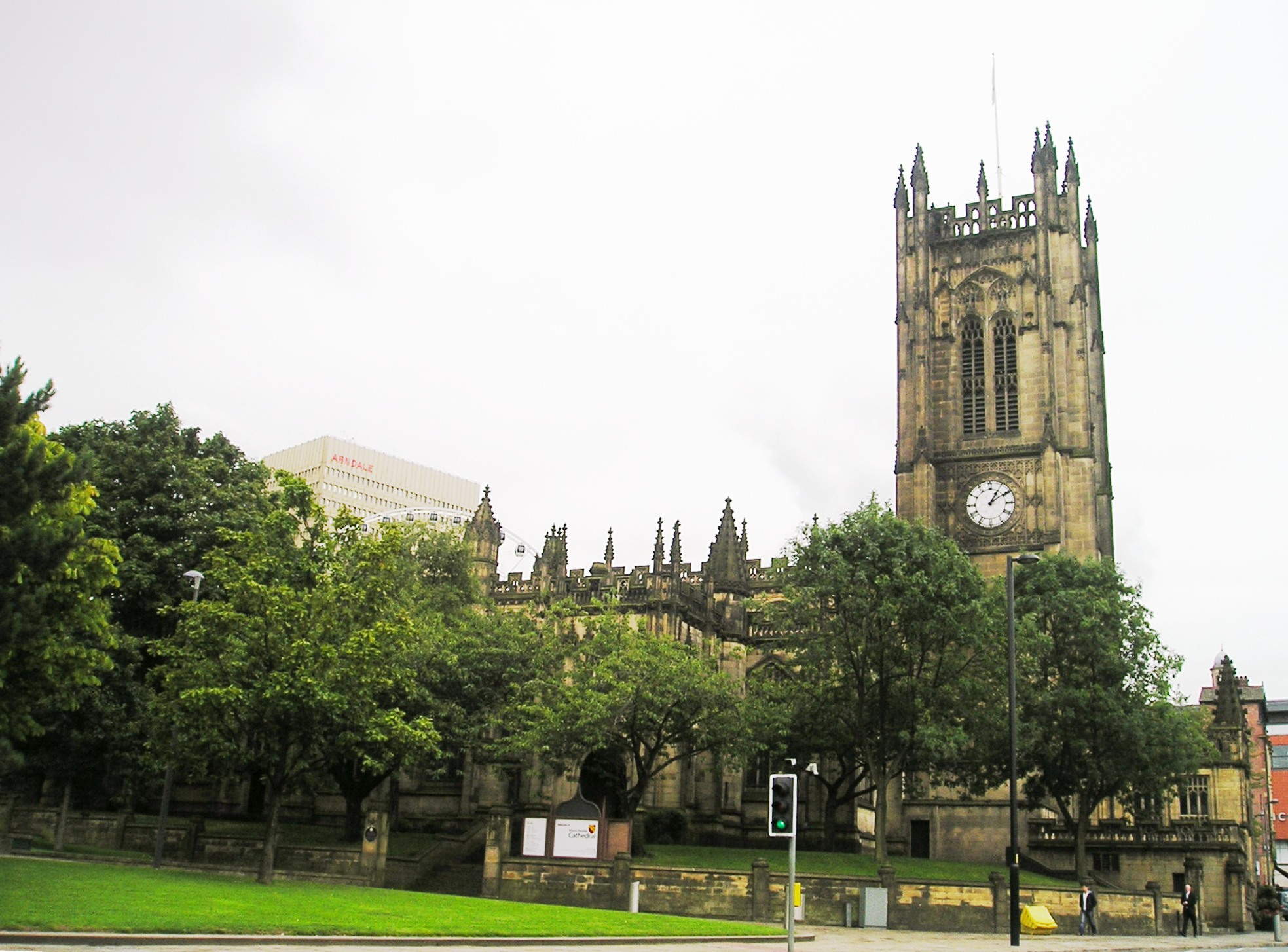 Manchester Cathedral in Manchester, Greater Manchester, England